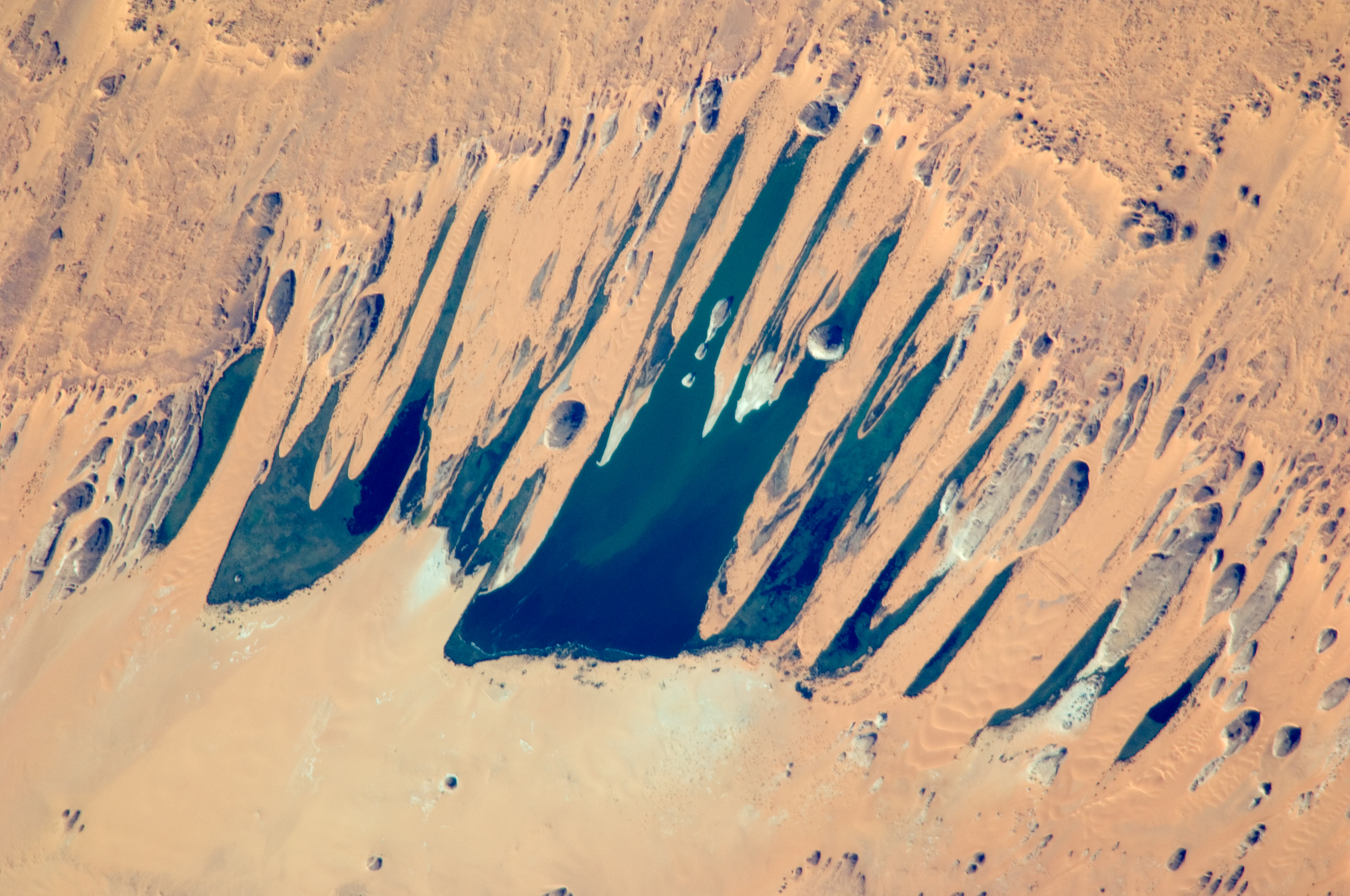 This astronaut photograph features one of the largest of a series of ten mostly fresh water lakes in the Ounianga Basin in the heart of the Sahara Desert of northeastern Chad. The lakes are remnants of a single large lake, probably tens of kilometers long, that once occupied this remote area approximately 14,800 to 5,500 years ago.